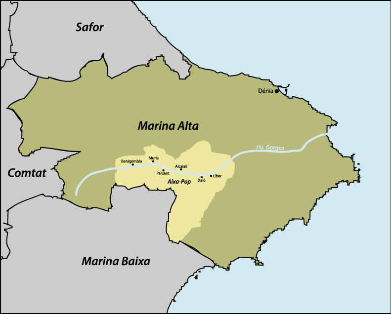 Aixa-Pop Sub-region into Marina Alta Region, Land of Valencia.